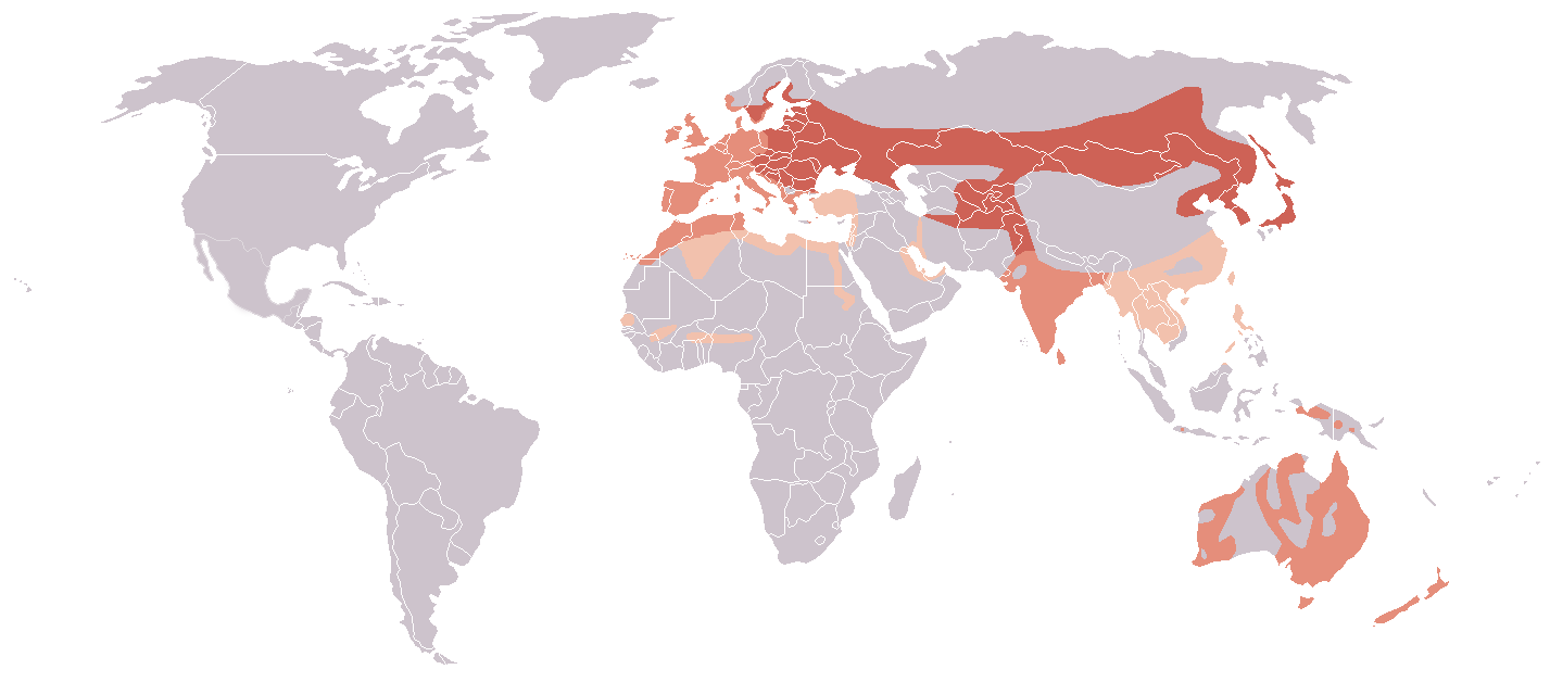 Eurasian coot (Fulica atra) world distribution map based on data from "Handbook of the birds of the world" by del Hoyo et al. Legend : Breeding area (summer) Resident throughout the year Wintering area